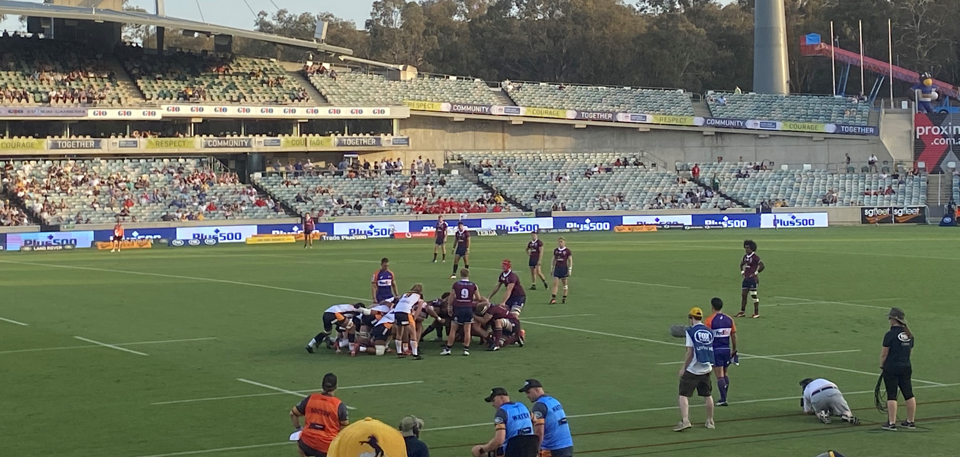 Scrum between the ACT Brumbies and the Queensland Reds in the Round 1 2020 clash at Canberra Stadium